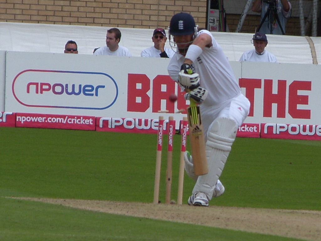 Kevin Pietersen bowled Mohammad Asif 9 in the first Test Match v Pakiston at Trent Bridge 2010